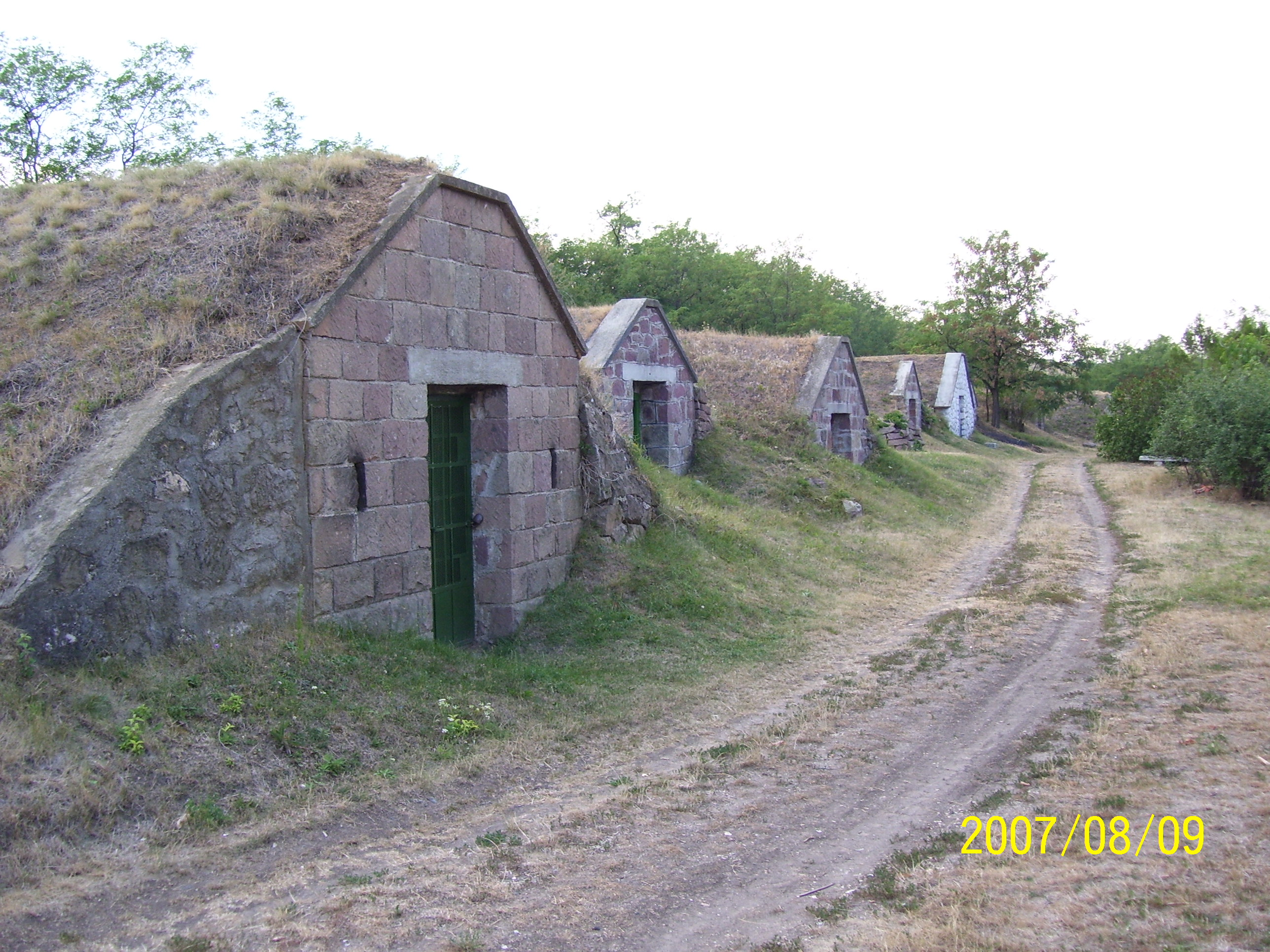 Cellars around Tard, Hungary